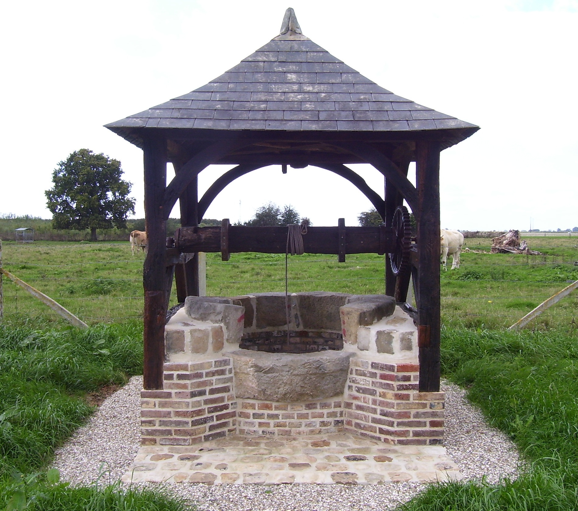 Well (16th century) in Valailles, in the Eure department in Haute-Normandie in northern France.